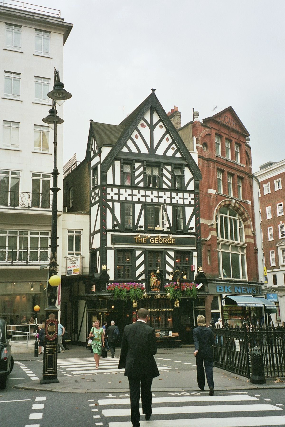 London, City of Westminster, near the Royal Courts of Justice